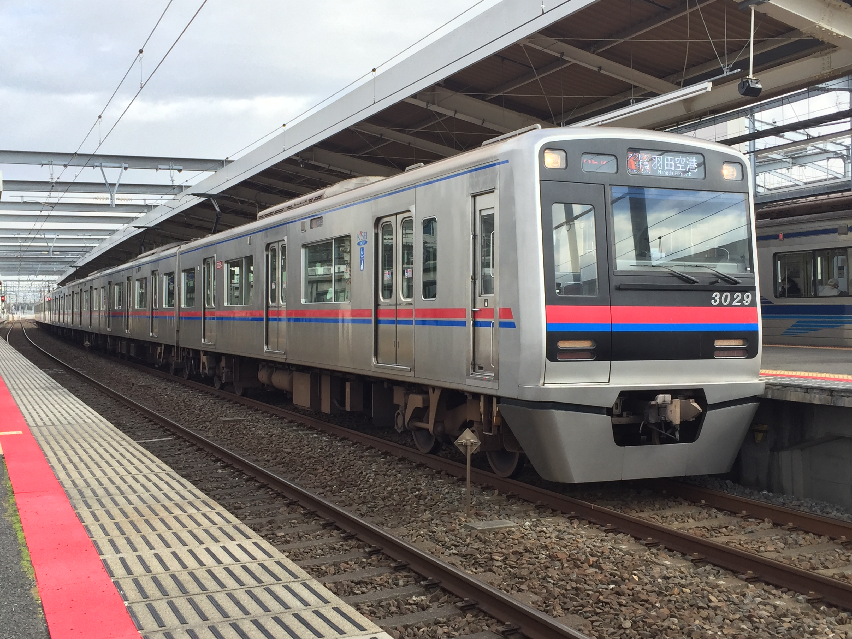 Keisei 3000 series EMU set 3029 at Shin-Kamagaya Station on the Hokuso Line in Chiba Prefecture, Japan